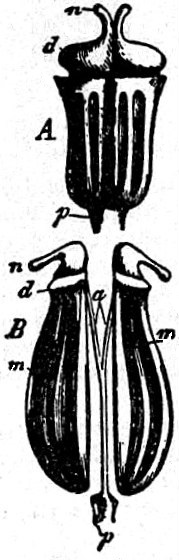 Drawing of fruit of Carum carvi: A, Ovary of the flower; B, ripe fruit. The two carpels have separated so as to form two mericarps (m). Part of the septum constitutes the carpophore (a). p, top of flower-stalk; d, disk on top of ovary; n, stigma.